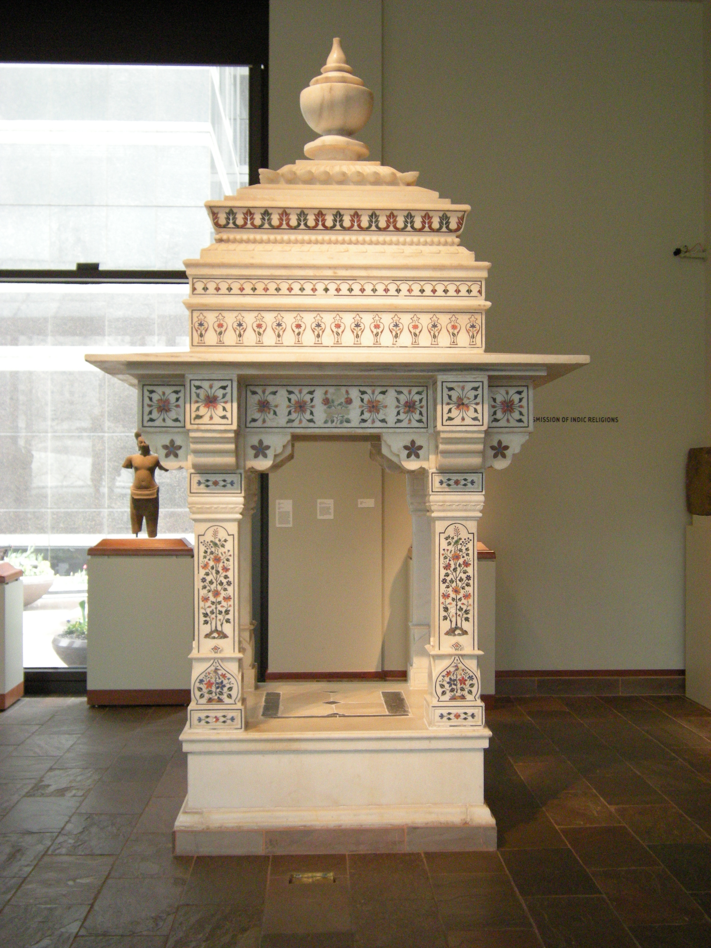 19th century decorated white marble shrine from Northern India. Trammell and Margaret Crow Collection of Asian Art, Dallas, Texas.